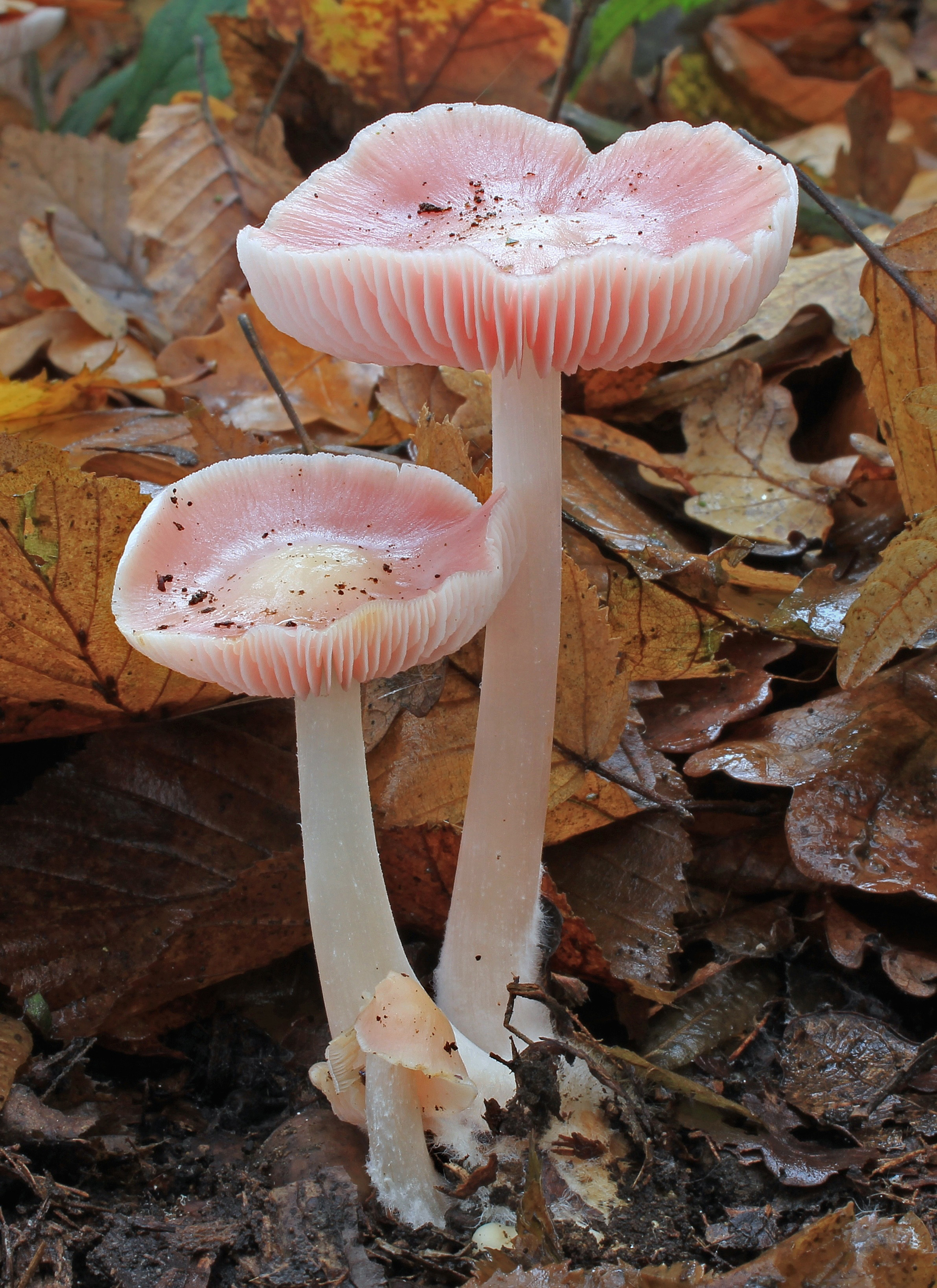 Mycena rosea, Rosy Bonnet, taken in Trent Park, Enfield, UK.